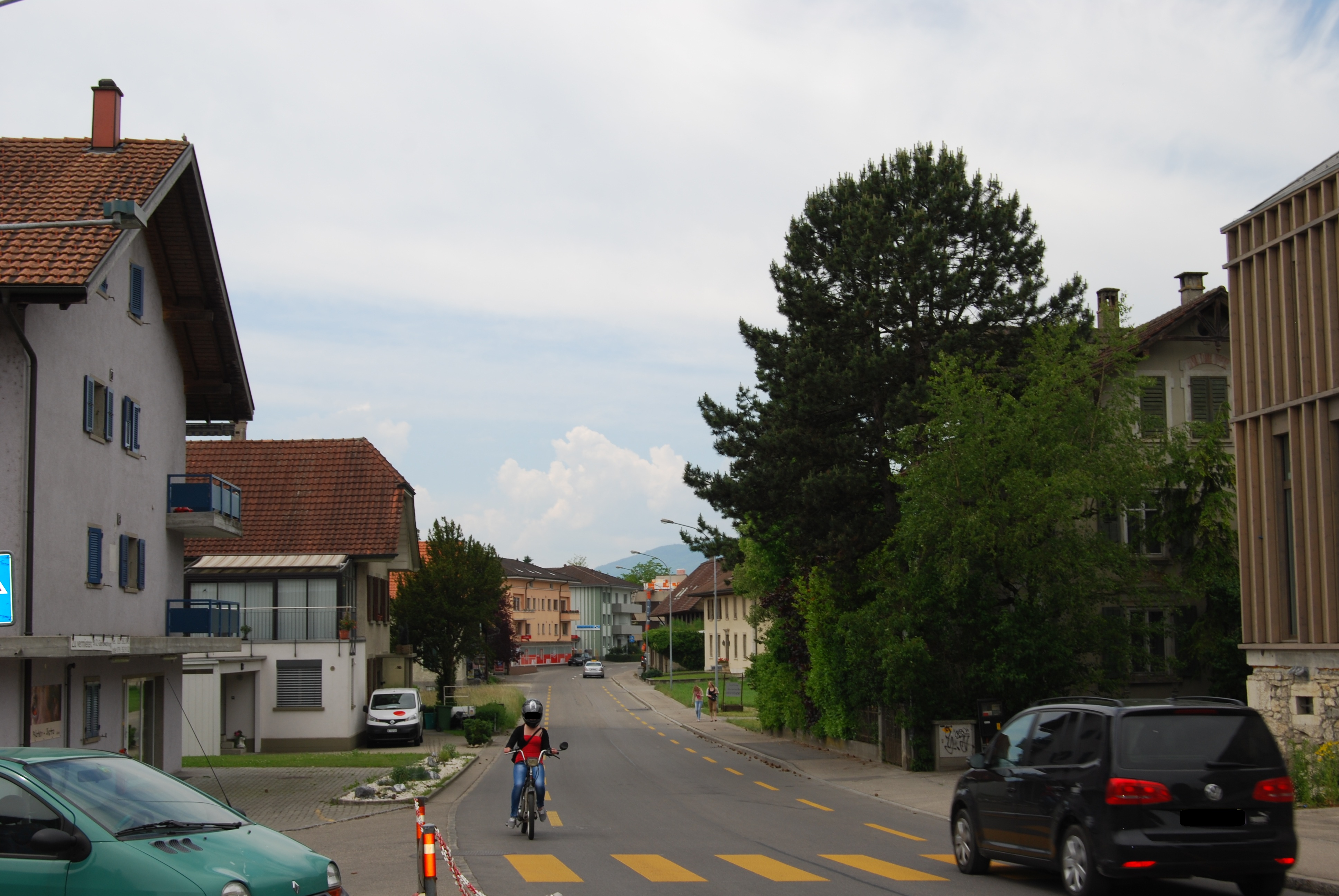 Orpund, canton of Bern, SwitzerlandEsperanto: Orpund, Kantono Berno, Svislando